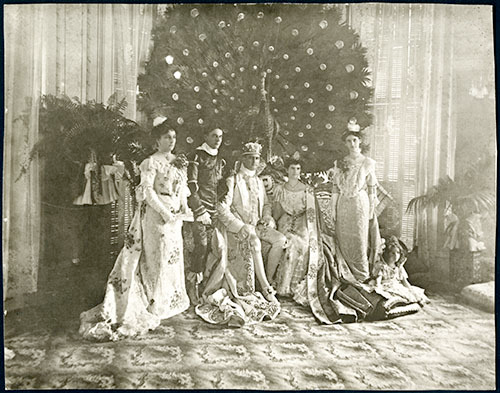 Jesse Jones as King Nottoc at the 1902 Notsouh Festival, Houston, Texas